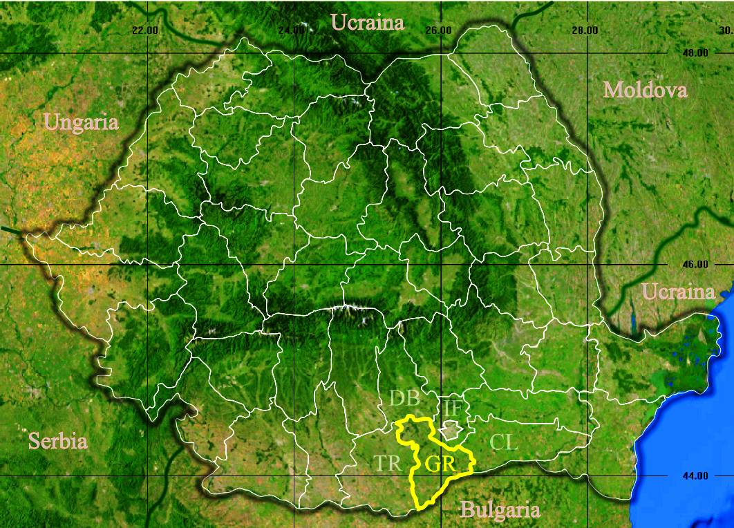 Location of Giurgiu County in Romania.